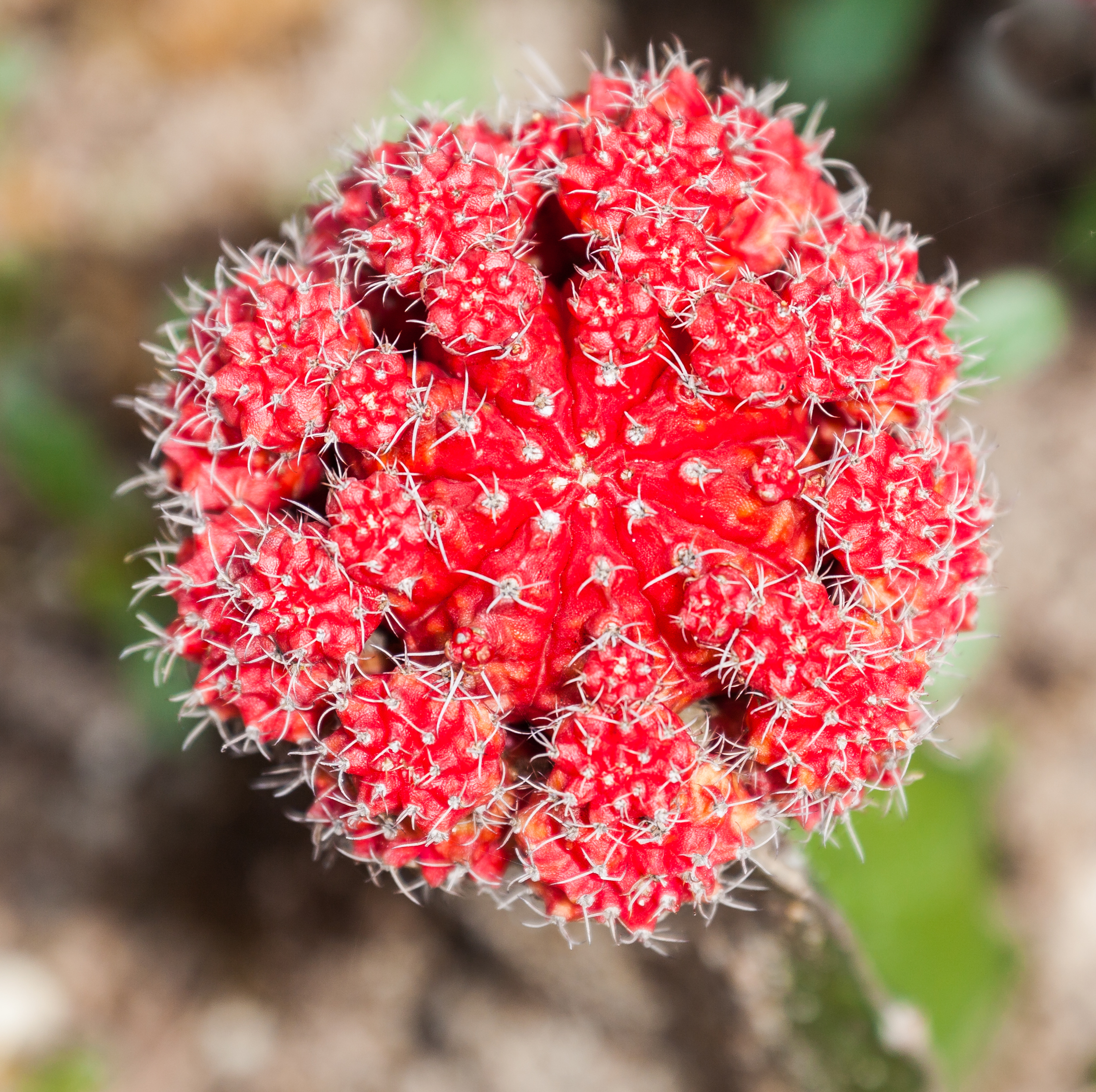 Gymnocalycium mihanowichii, Ho Chi Minh City, Vietnam